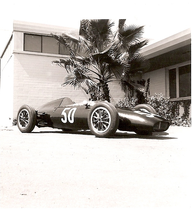 Dolphin Mk 2